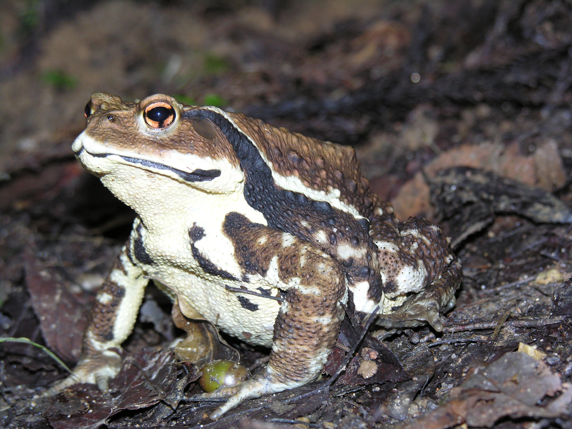 Japanese Common Toad, Aichi Japan